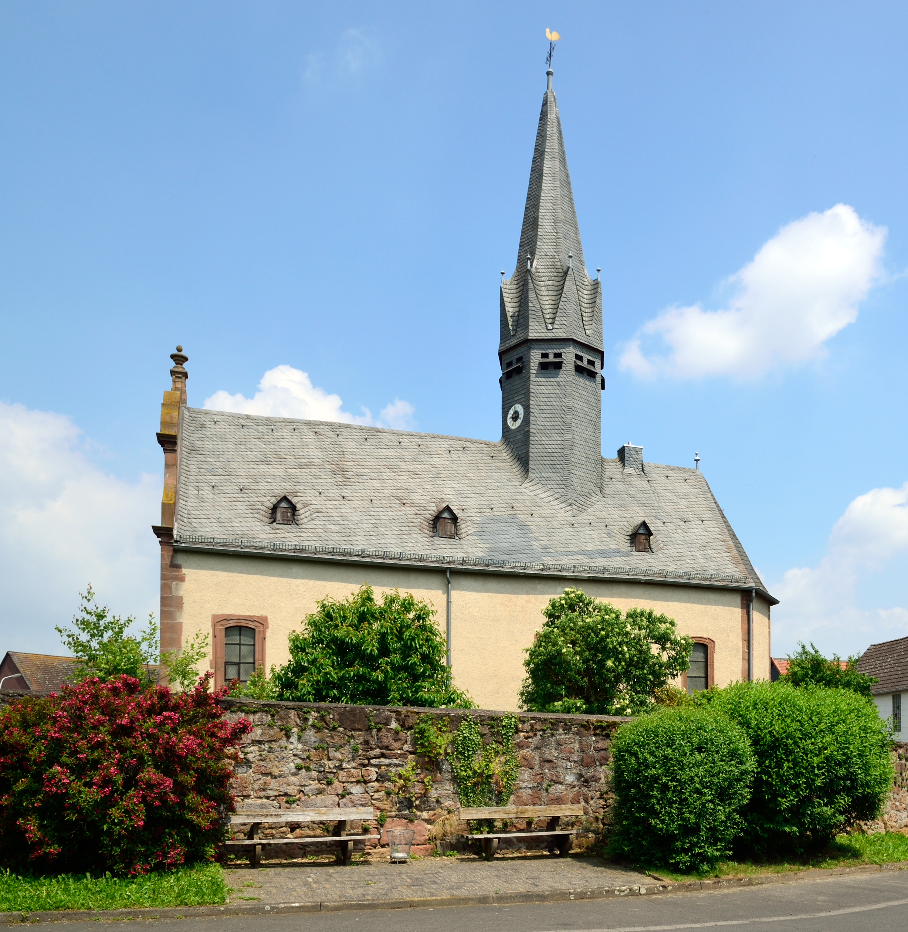 Church in Kleinseelheim, Kirchhain